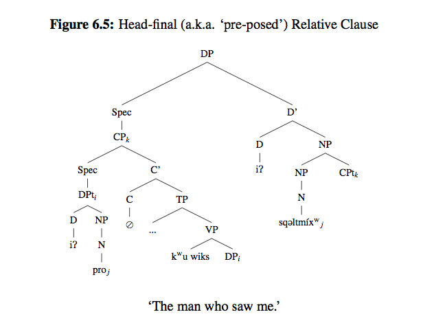 Trees2